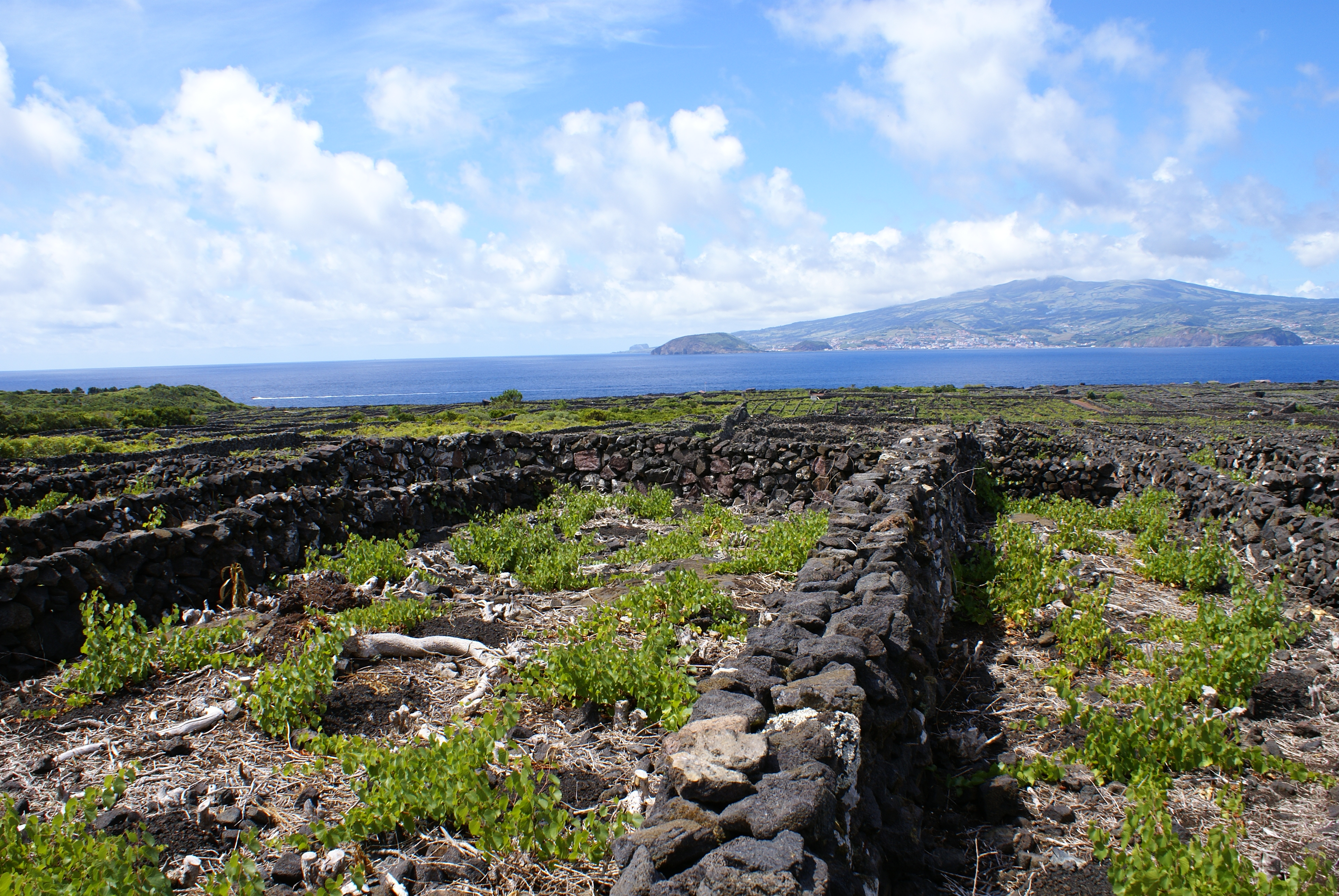 Paisagem Protegida de Interesse Regional da Cultura da Vinha da Ilha do Pico, campos de vinha, muros, São Roque do Pico, ilha do Pico, Açores